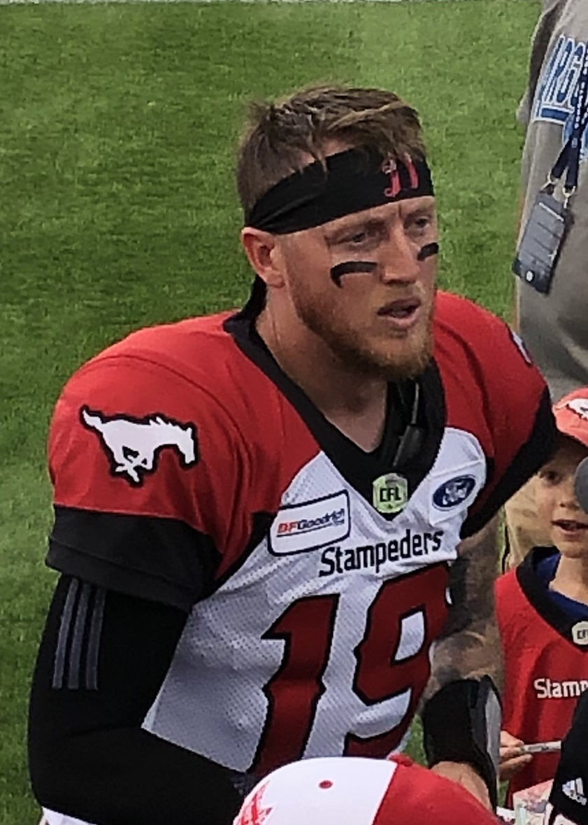 Bo Levi Mitchell, quarterback for the Calgary Stampeders.